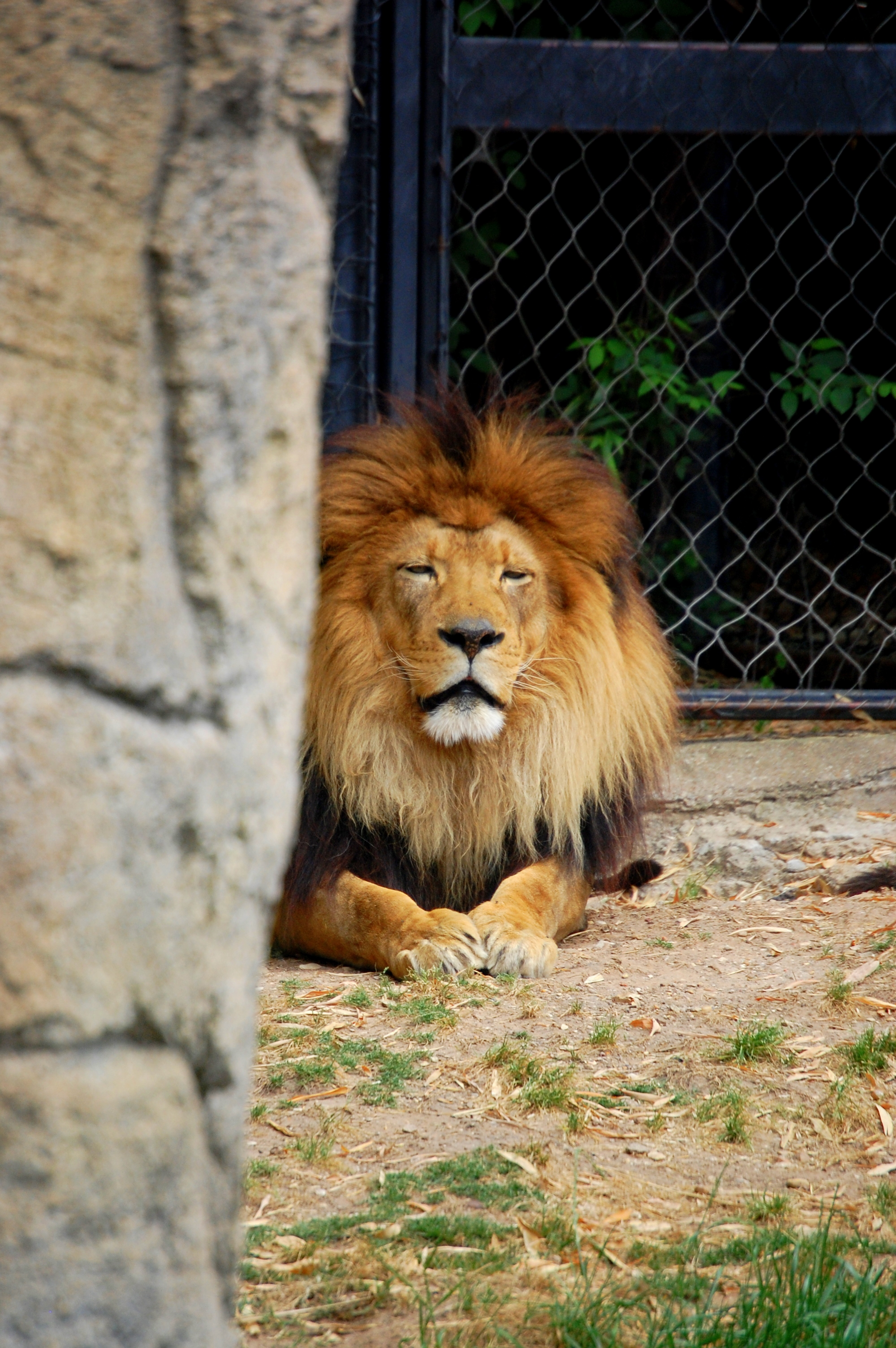 Male Lion in habitat at Cameron Park Zoo in Waco, Texas